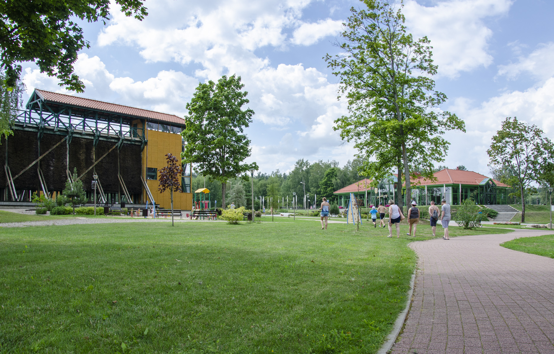 Graduation towers in Goldap